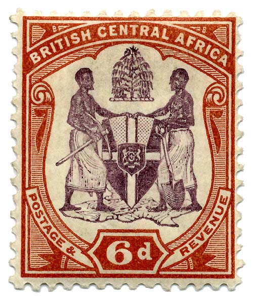 Scan of British Central Africa 6p stamp of 1897